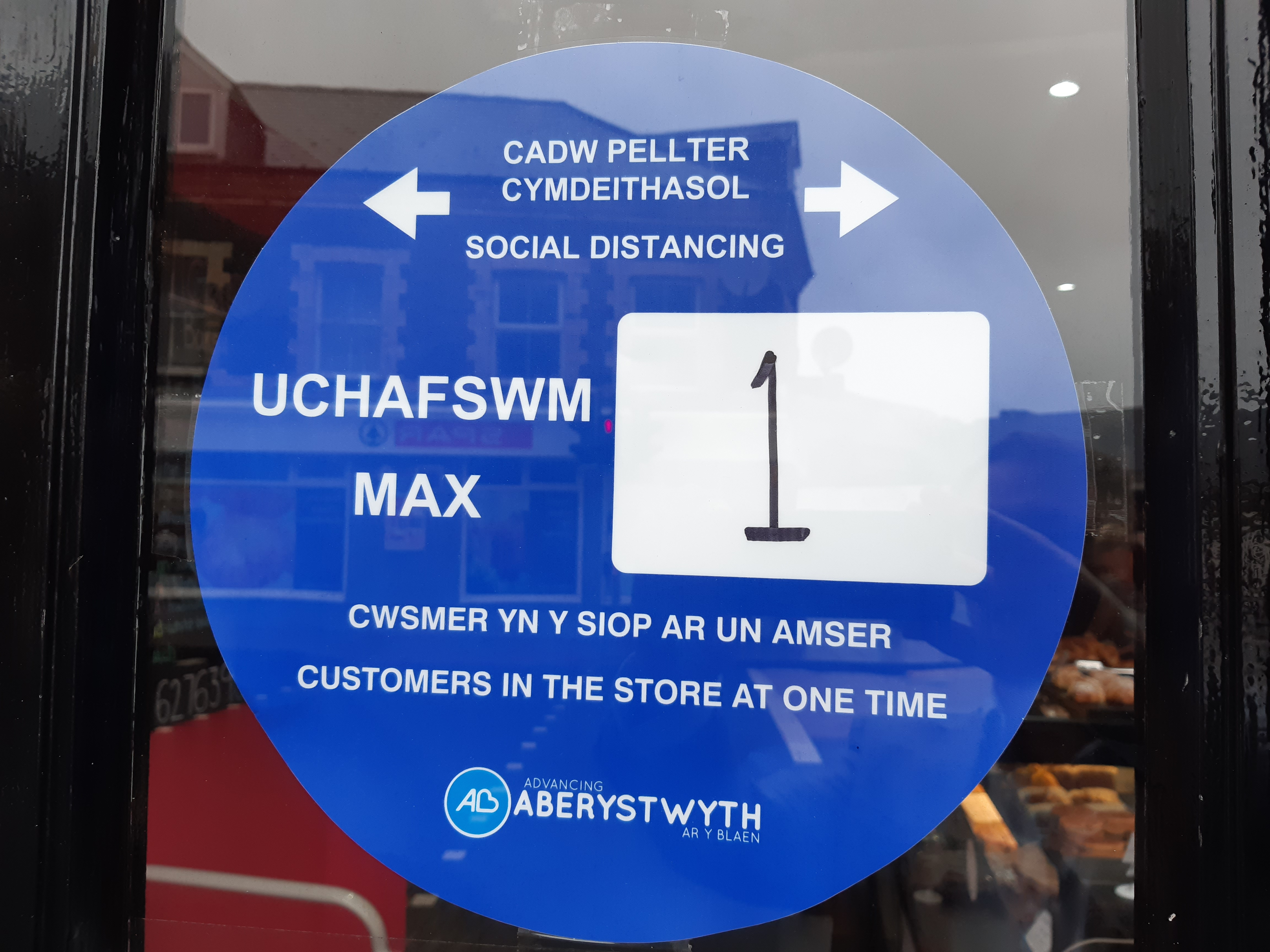 COVID-19 Bilingual Welsh and English social distancing sing Aberystwyth, Popty'r Pelican, Northgate St, Aberystwyth